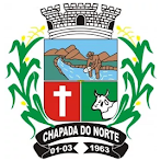 Coat of arms of the city of Chapada do Norte, Minas Gerais, Brazil.